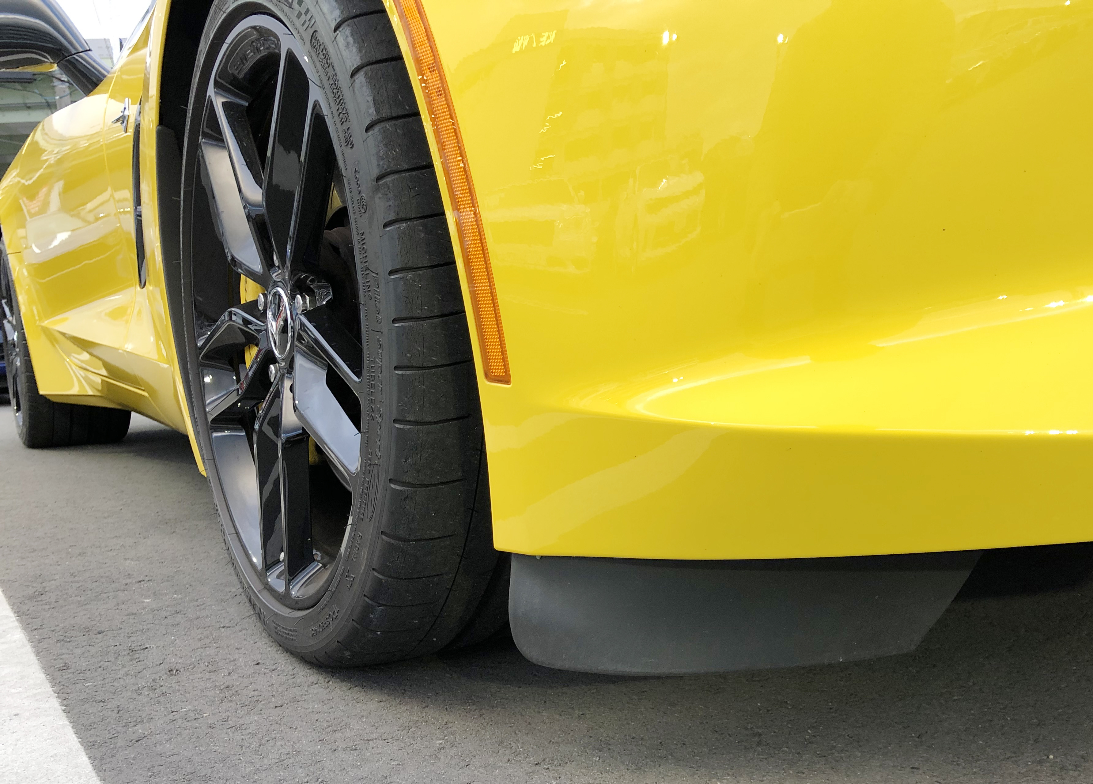 C7 Corvette Tire deflector AeroDynamics